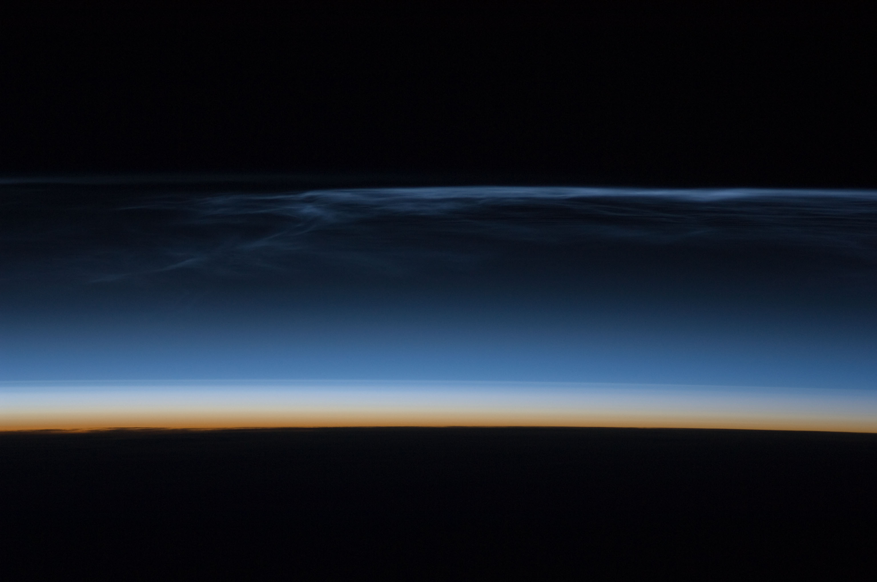 Noctilucent clouds photographed by the crew of the ISS. Polar Mesospheric Clouds (also known as noctilucent clouds) are transient, upper atmospheric phenomena observed usually in the summer months at high latitudes (greater than 50 degrees) of both the Northern and Southern Hemispheres. They are bright and cloudlike in appearance while in deep twilight. They are illuminated by sunlight when the lower layers of the atmosphere are in the darkness of the Earth's shadow. This image was acquired at an altitude of just over 320 km (200 miles) in the pre-dawn hours of 22 July 2008 as the International Space Station was passing over western Mongolia in central Asia. The dark horizon of the Earth appears below with some layers of the lower atmosphere already illuminated. The higher, bluish-colored clouds look much like wispy cirrus clouds which can be found in the troposphere as high as 18 km (60,000 feet). However noctilucent clouds, as seen here, are observed in the mesosphere at altitudes of 75 to 85 km (250,000 to 280,000 feet). Astronaut observations of Polar Mesospheric Clouds (PMC) over northern Asia in June and July are not uncommon. The Expedition 17 crew of the International Space Station acquired this image, and more, in support of research for the International Polar Year. Some researchers link increased observations of PMC to changes in global climate; PMC have been the subject of extensive observation and research from space by the Swedish satellite Odin launched in 2001 and more recently by NASA's Aeronomy of Ice in the Mesosphere (AIM) satellite system beginning in 2007.